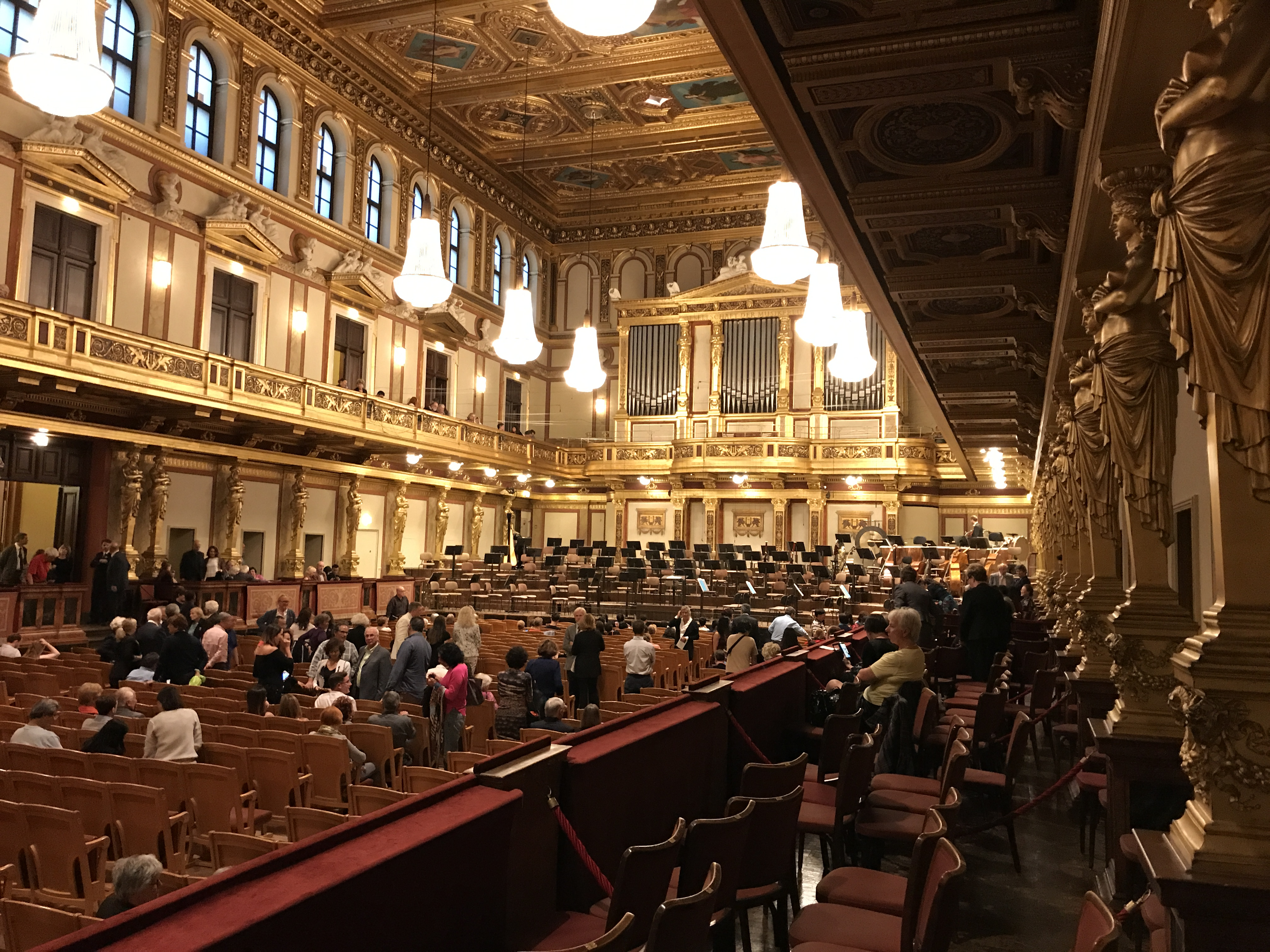 Great Hall of Vienna's Musikverein. May 2017